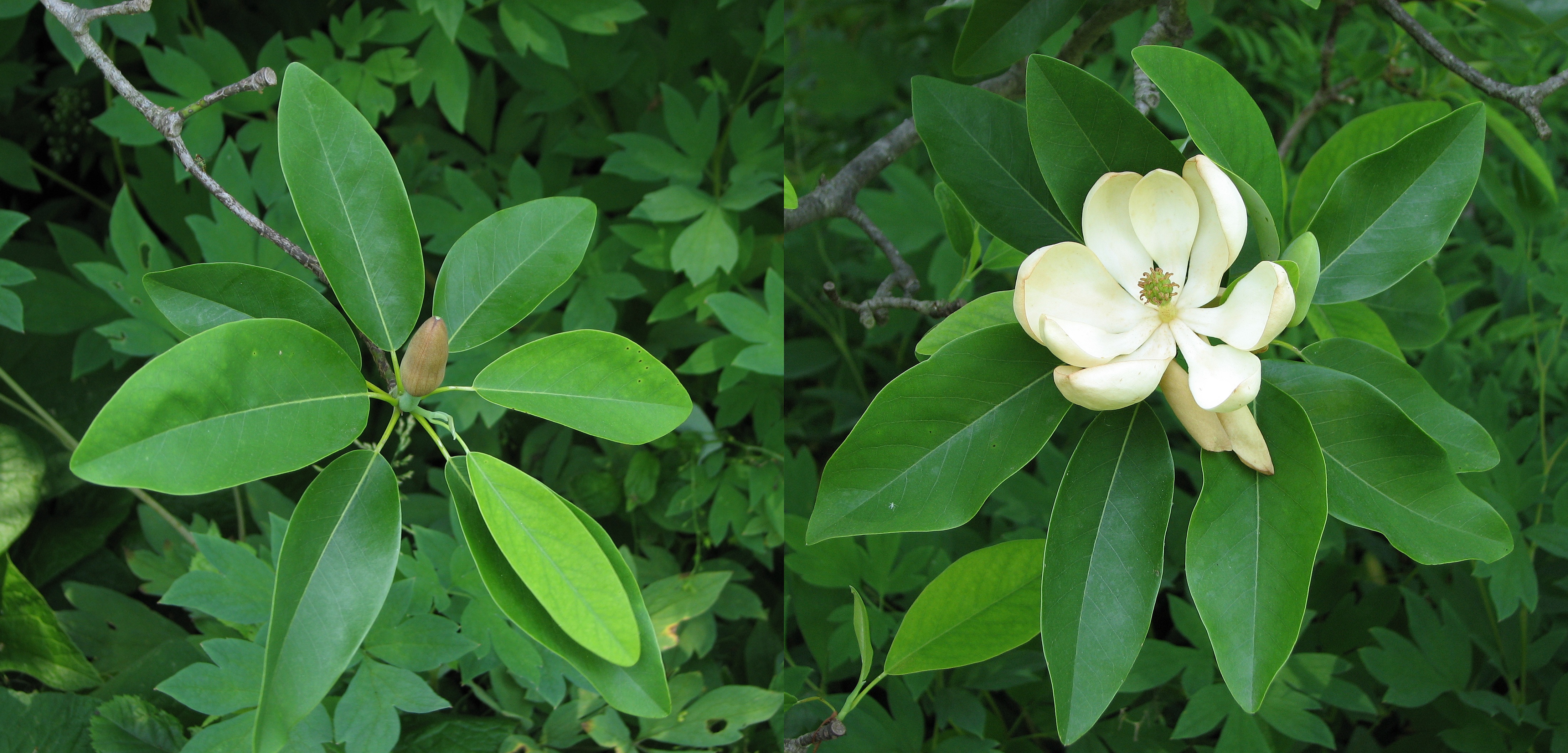 Comparison picture of an unopened (left) or opened (right) flower on the Sweetbay Magnoliaen (Magnolia virginiana en . Photo taken in the near the Tennis Court Garden at the Chanticleer Garden where the species was identified.